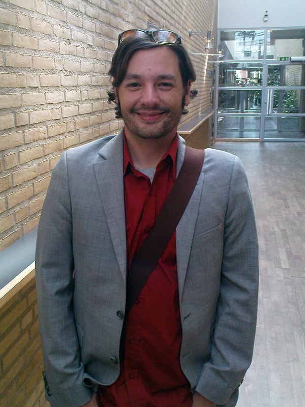 Charles Edge at the MacSysAdmin conference in Gothenburg 2009-09-18